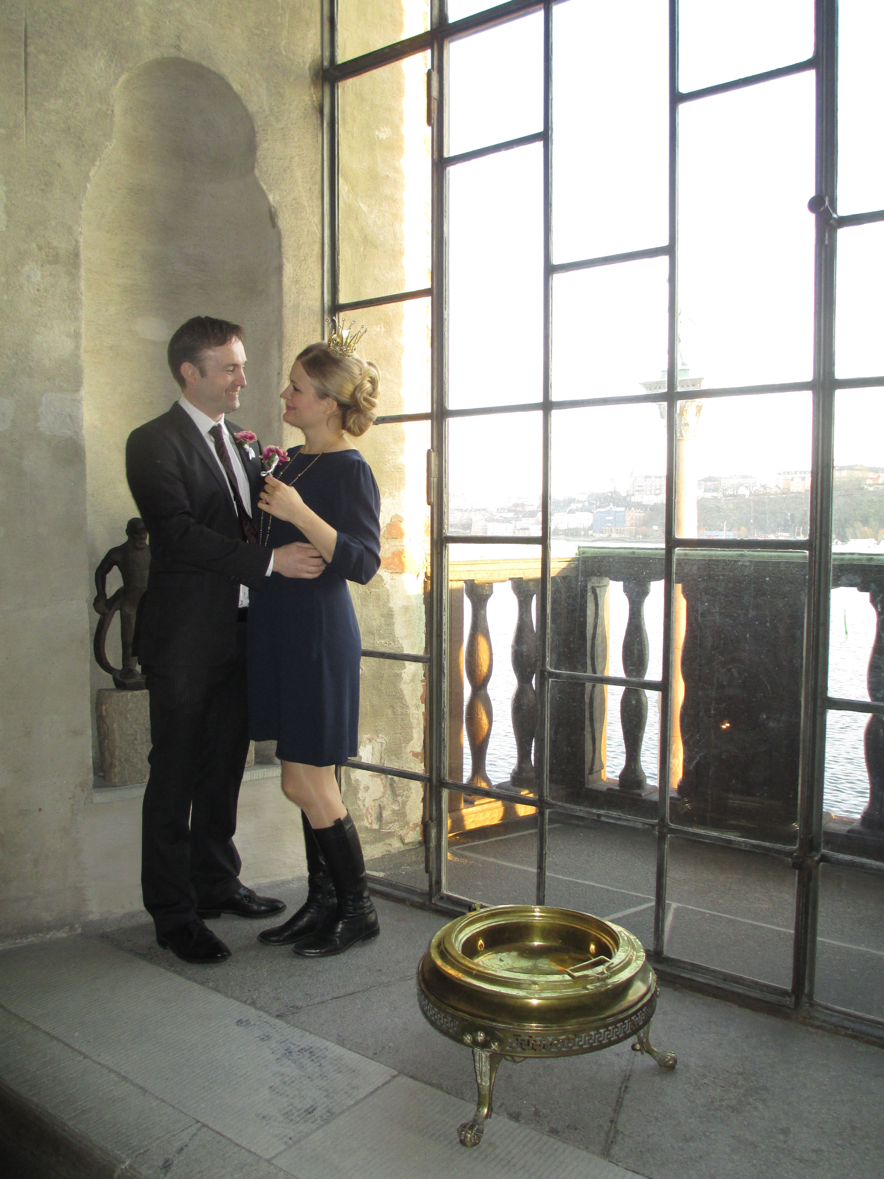 Wedding (civil ceremony) of Jens O. Z. Ehrs & Anna FlodmarkPlace: City Hall, Stockholm, Sweden